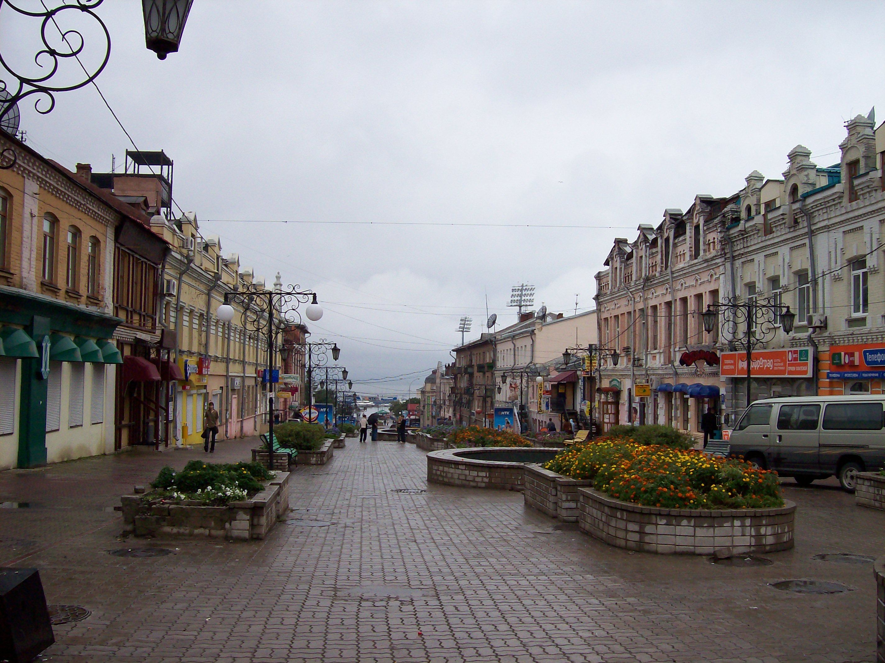 Владивосток, ул Адмирала Фокина